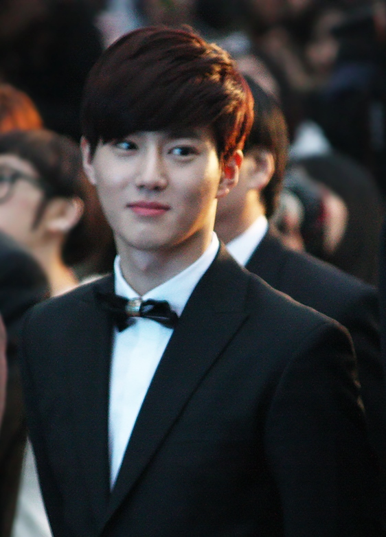 Suho at the Hallyu Star Street on March 12, 2014.